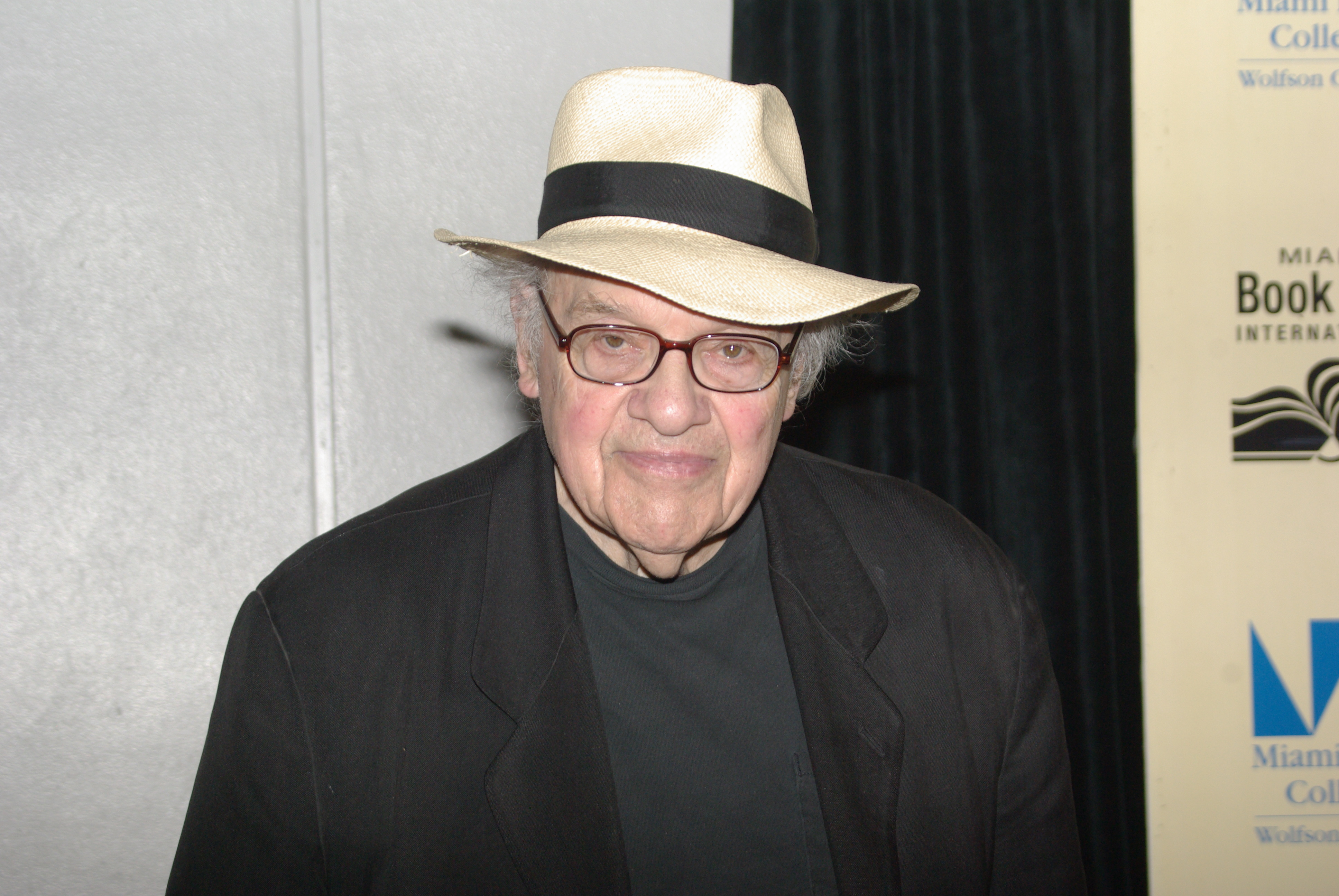 American poet Gerald Stern at the Miami Book Fair International 2011